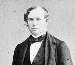 John Hillyard Cameron. Cropped version of a larger image.